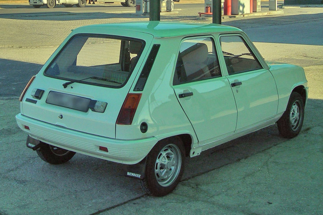 5-door Renault 5 of the first generation, photographed in Lisbon, Portugal Cropped and colours adjusted by uploader Mr.choppers License on Flickr (2010-12-27): CC-BY-SA-2.0 Flickr tags: Renault 5, Ponderosa, N1, Nacional 1, Estrada Nacional 1, Gas station, Logística, Renault Trucks